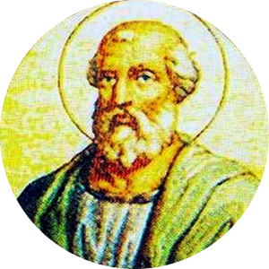 Portrait of Pope Saint Linus un the Basilica of Saint Paul Outside the Walls, Rome